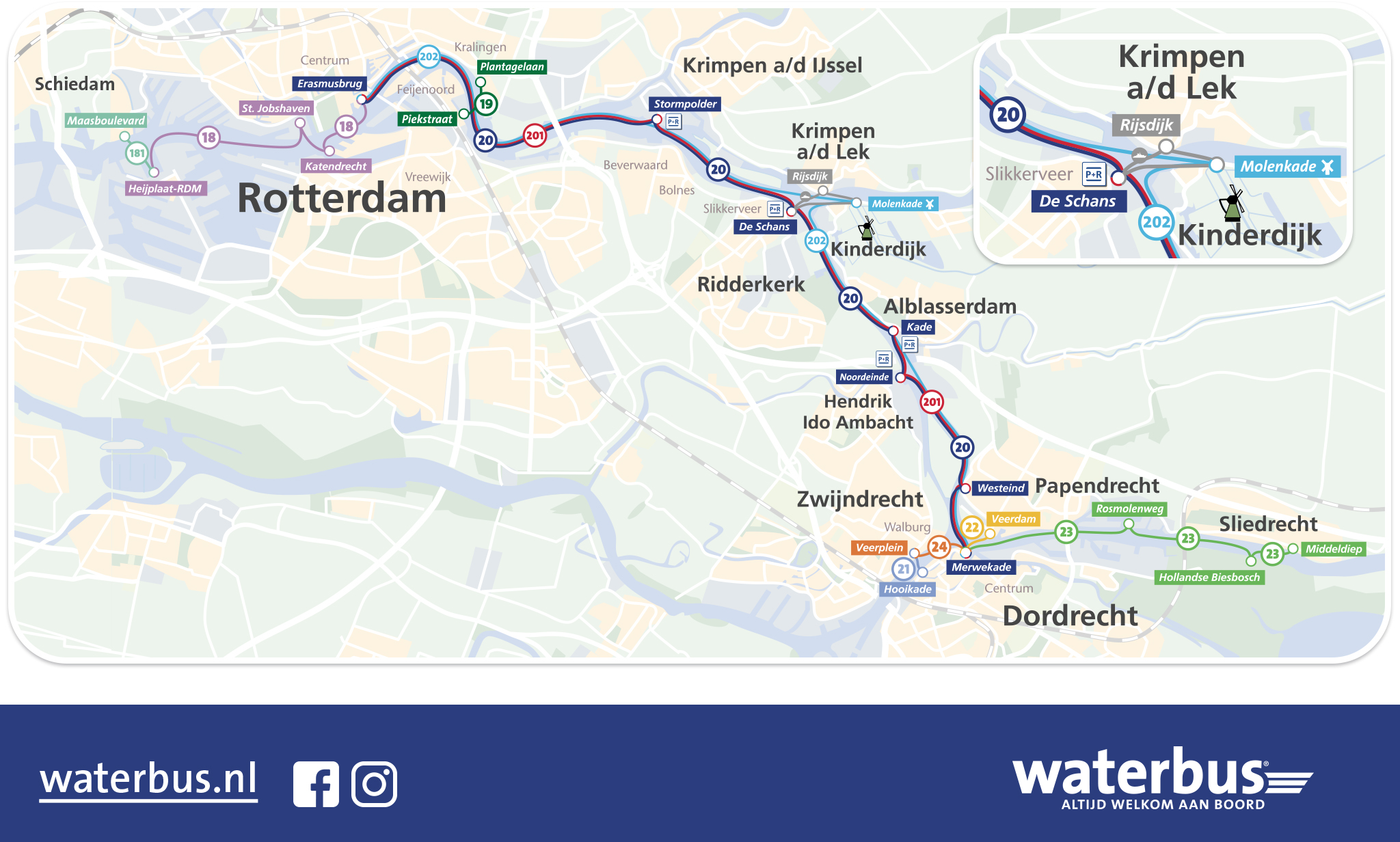 Waterbus